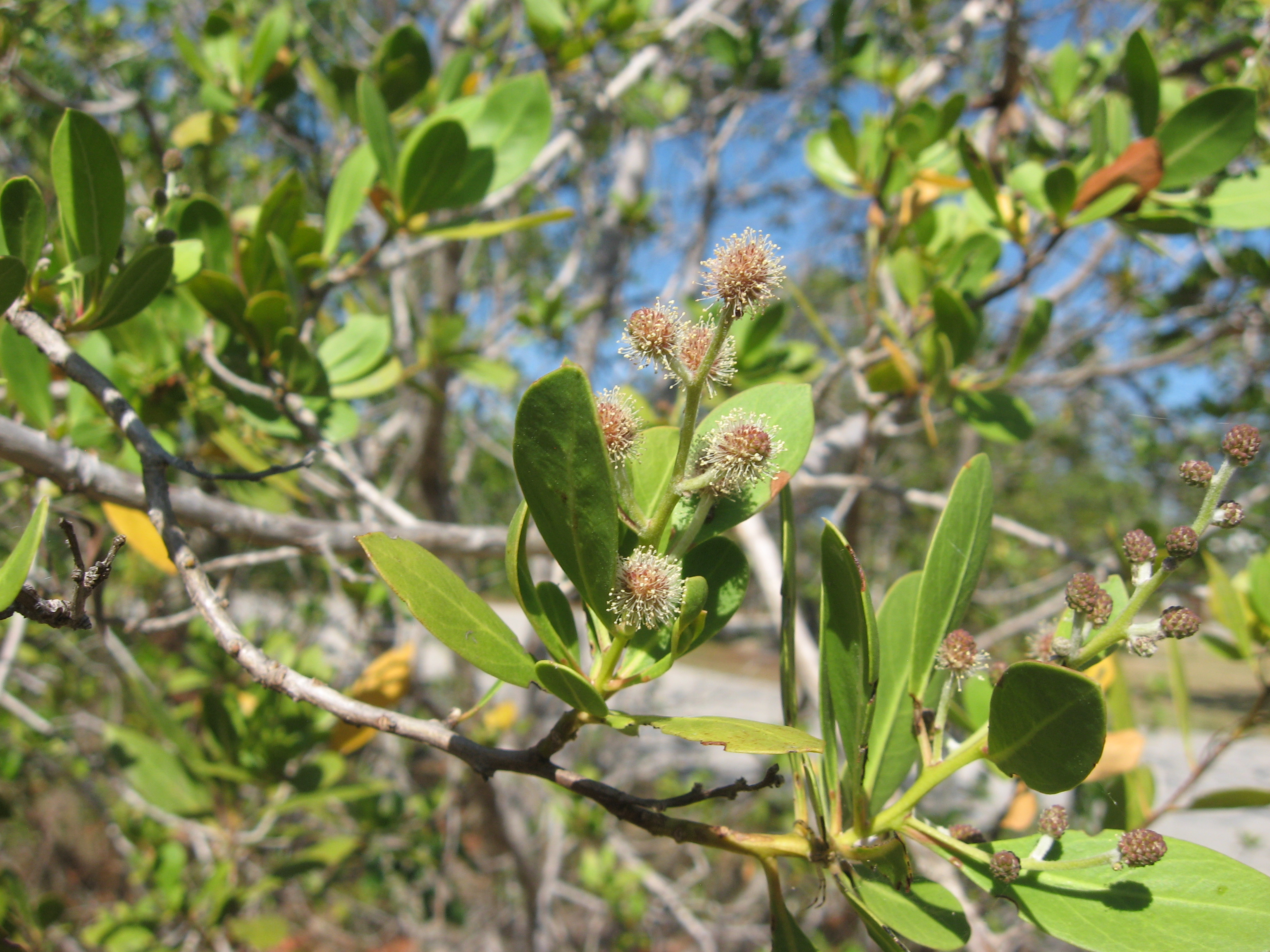 Conocarpus erectus var. erectus, John Pennekamp Coral Reef State Park, Key Largo, Florida.